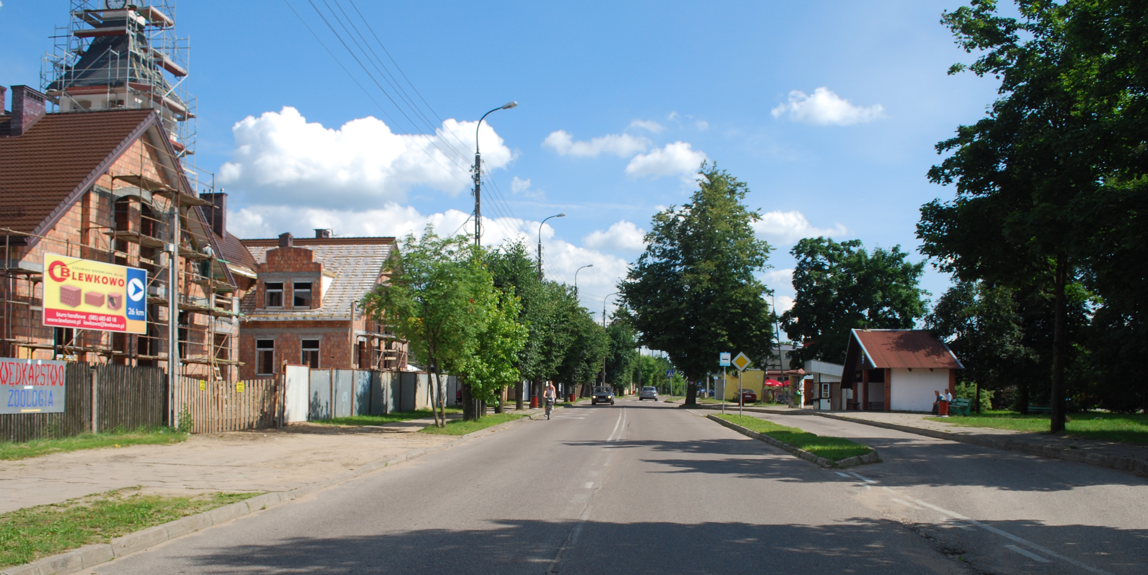 This photo from Podlaskie Voievodeship was taken during Polish Wikiexpedition 2009 set up by Wikimedia Polska Association. The making of this document was supported by Wikimedia Polska. ul. Białostocka w Michałowie.